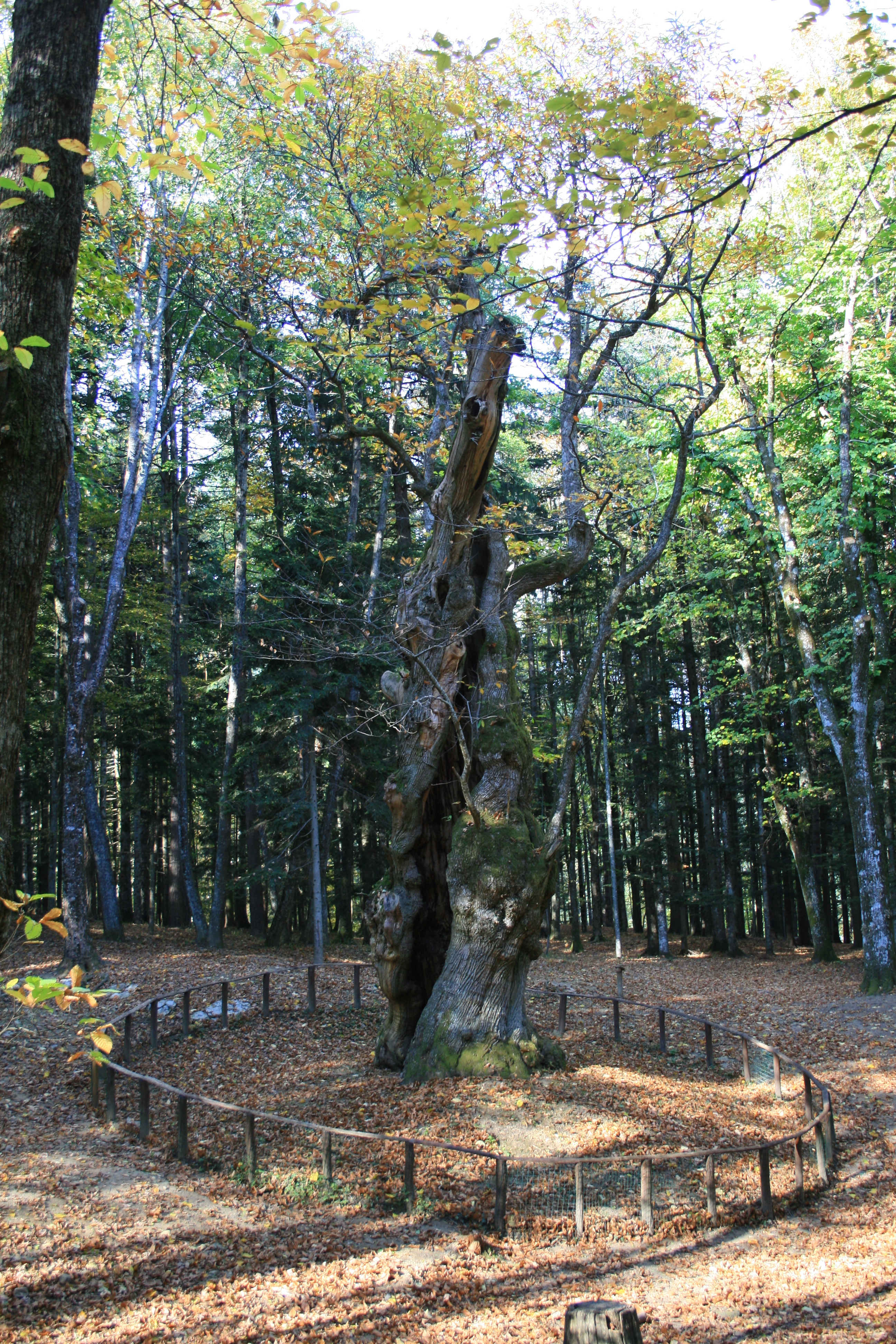 Castagno Miraglia, Parco nazionale delle foreste Casentinesi